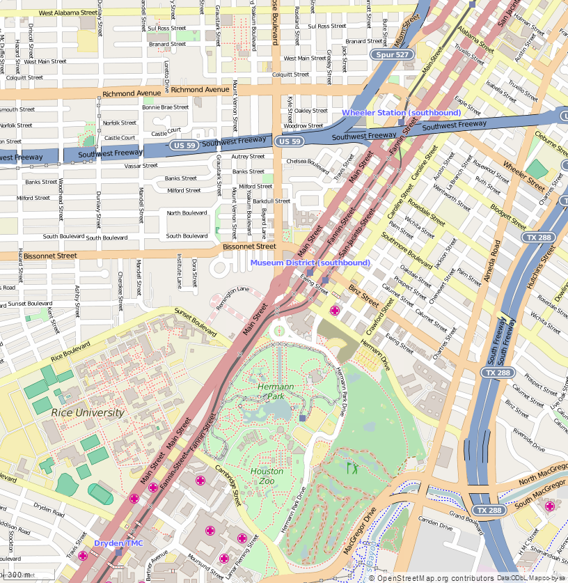 This map of Houston Museum District was created from OpenStreetMap project data, collected by the community. The image should remain clear of any additional edits. To annotate the map for an article, use the Infobox or Location Map template and reference the map using map module Houston Museum District. This map may be incomplete, and may contain errors. Submit corrections to the below source link. Do not rely solely on the map for navigation. Steven Driskell Image for Map Module : Houston Museum District Latitude north = 29.73930 Latitude south = 29.70807 Longitude west = -95.40819 Longitude east = -95.37313 Map symbology